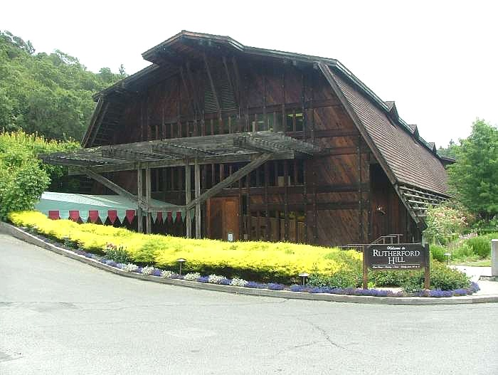 Rutherford Hill Winery, Napa Valley, California